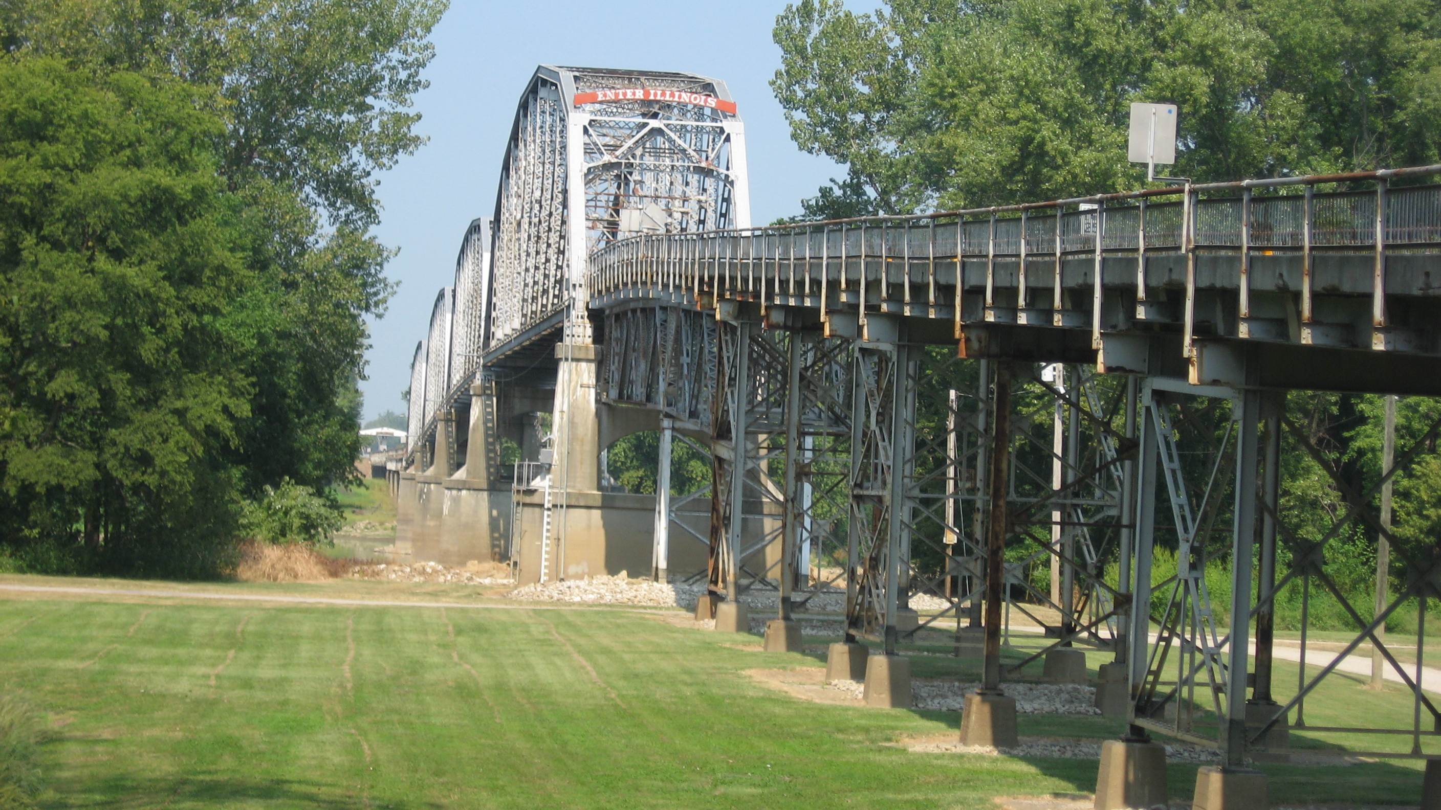 Southern side of the eastern end of the Harmony Way Bridge, which carries Indiana State Road 66 and Illinois Route 14 over the Wabash River between New Harmony, Indiana and rural White County, Illinois in the United States. Built in 1930, it is listed on the National Register of Historic Places.